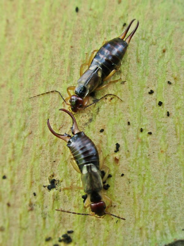 Forficula auricularia (Forficulidae sp.), Arnhem, the Netherlands